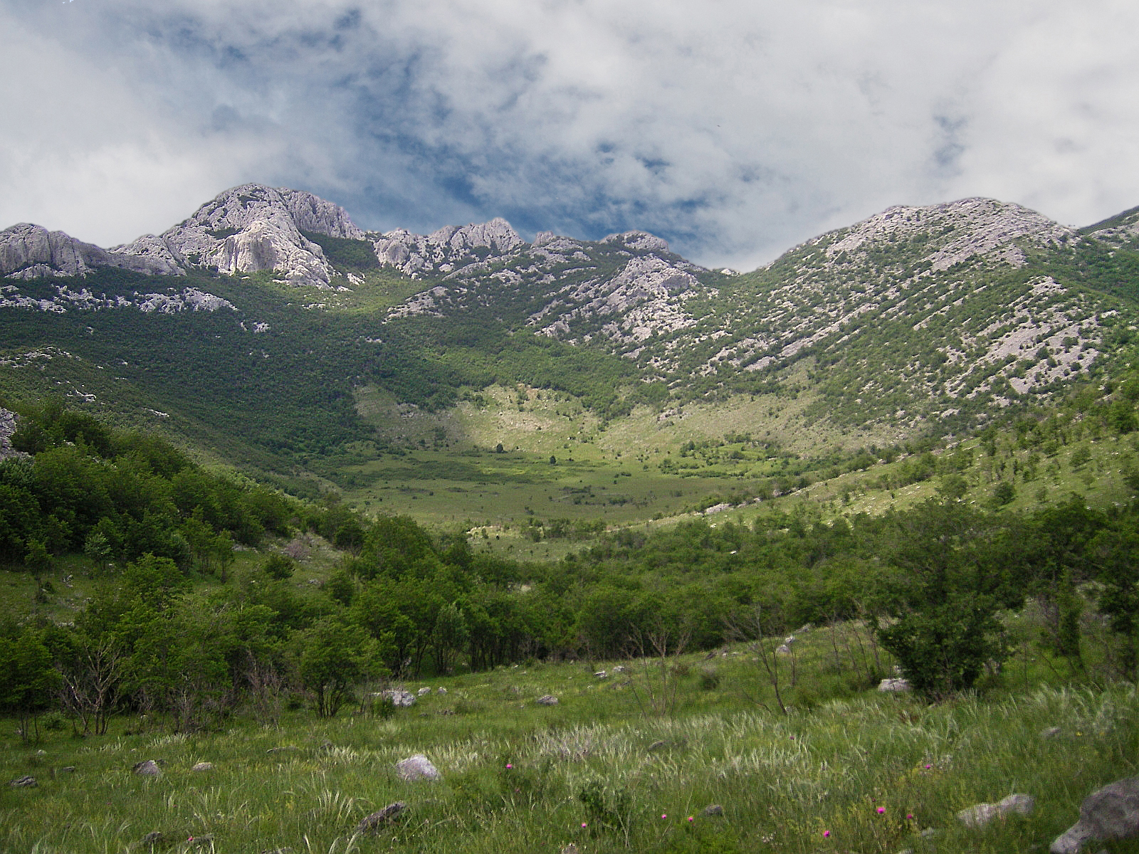 Duboki Dol, uvala, length ca. 3000 m (500 m fertile depression floor only), altitude in ca. 530 m, Croatian Dinaric Alps. Geology: Due to sizes, uvalas probably developed since Pliocene, maybe even earlier by faulting and karstification. Massive tectonics and karstification karstified the Velebit mountain chain extremely deep.